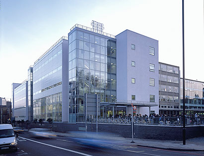 Image of Sixth Form College